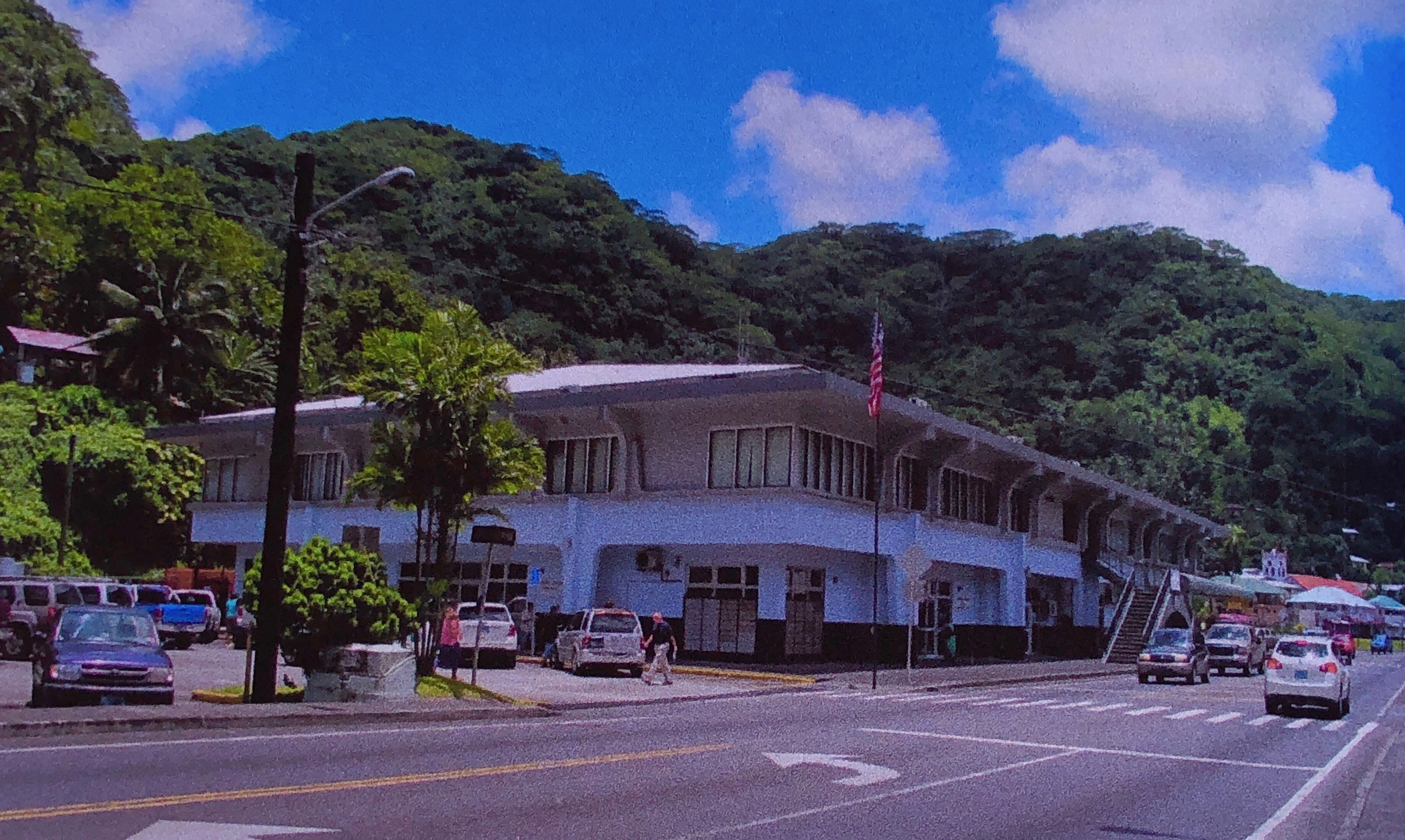 Pago Pago Post Office in Fagatogo, American Samoa